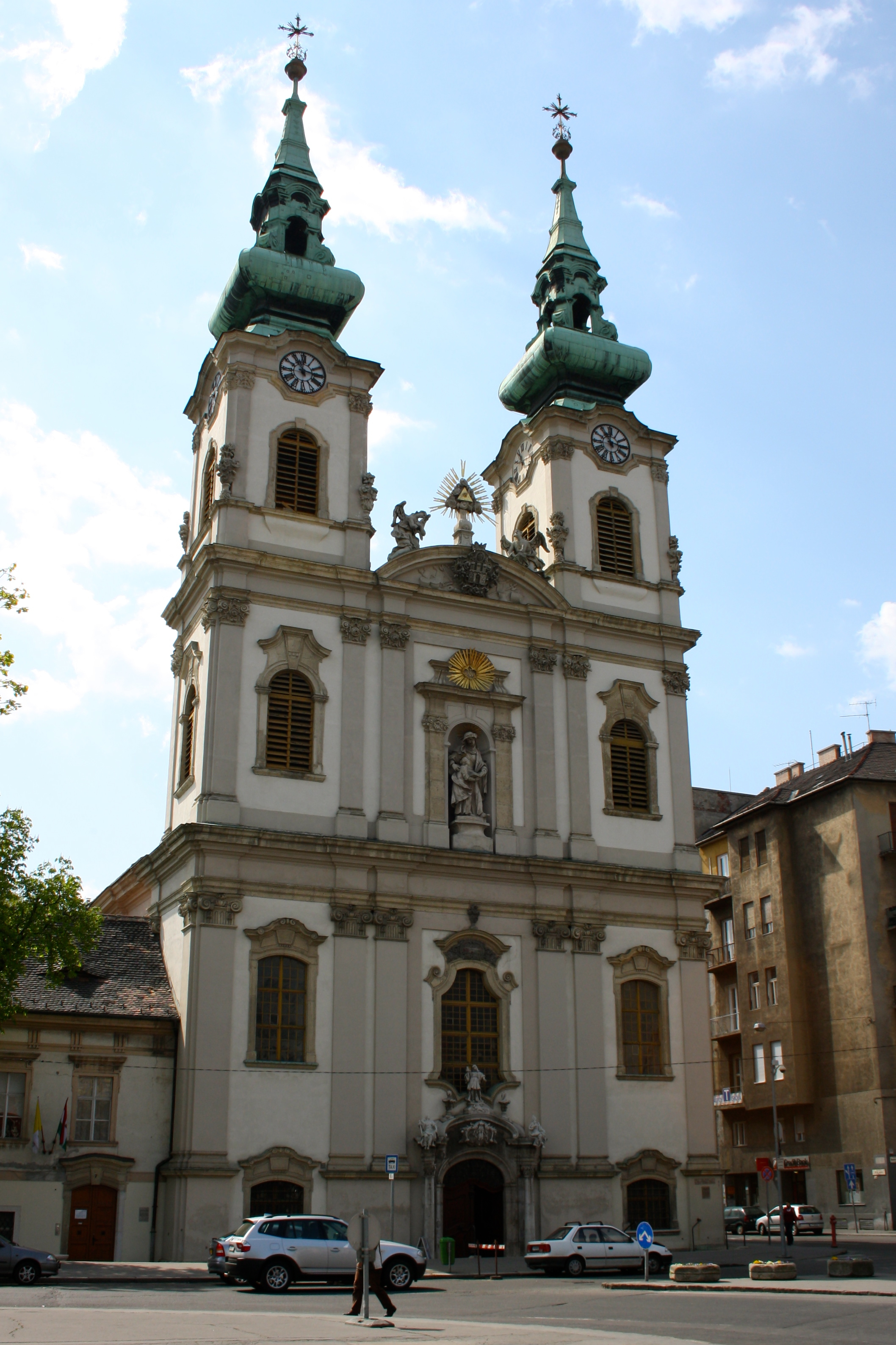 Saint Anne Church, Budapest.